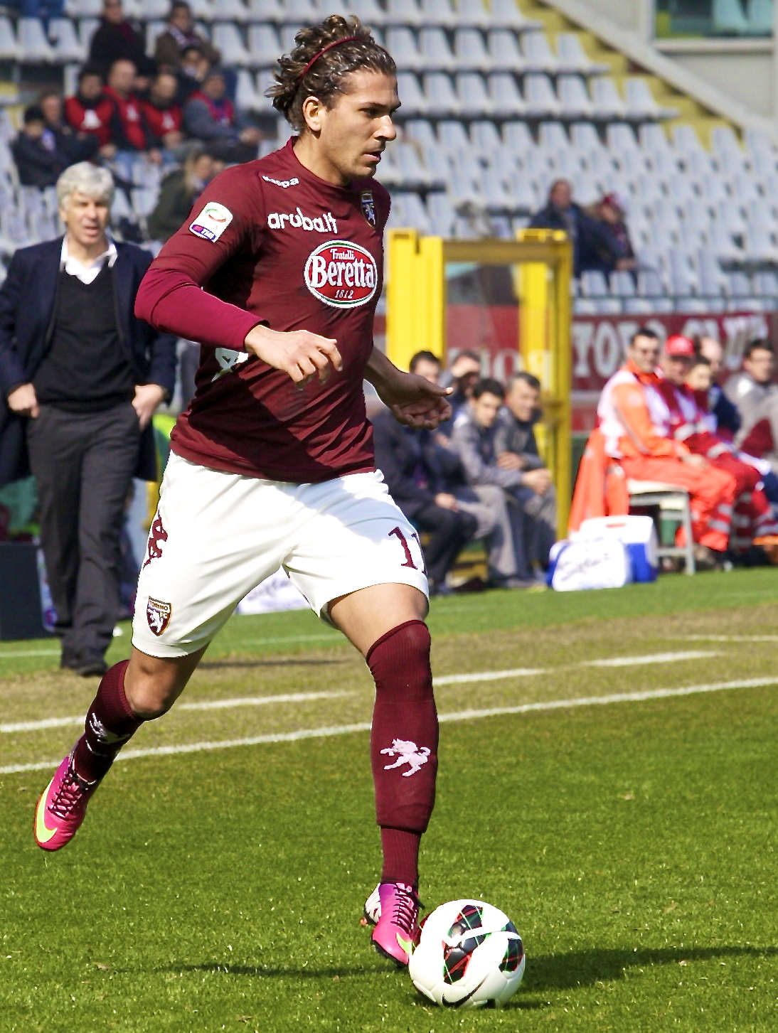 Alessio Cerci, Torino Fc ph Massimiliano Finotti 2013.05.26